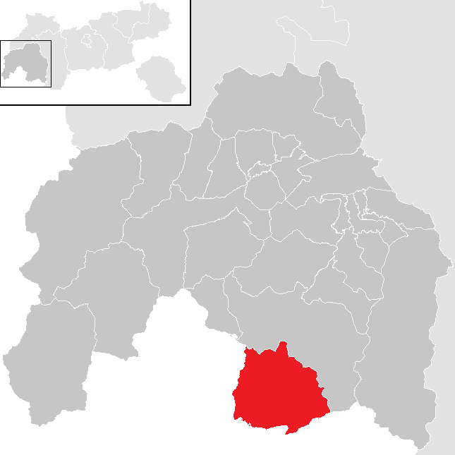 District Landeck